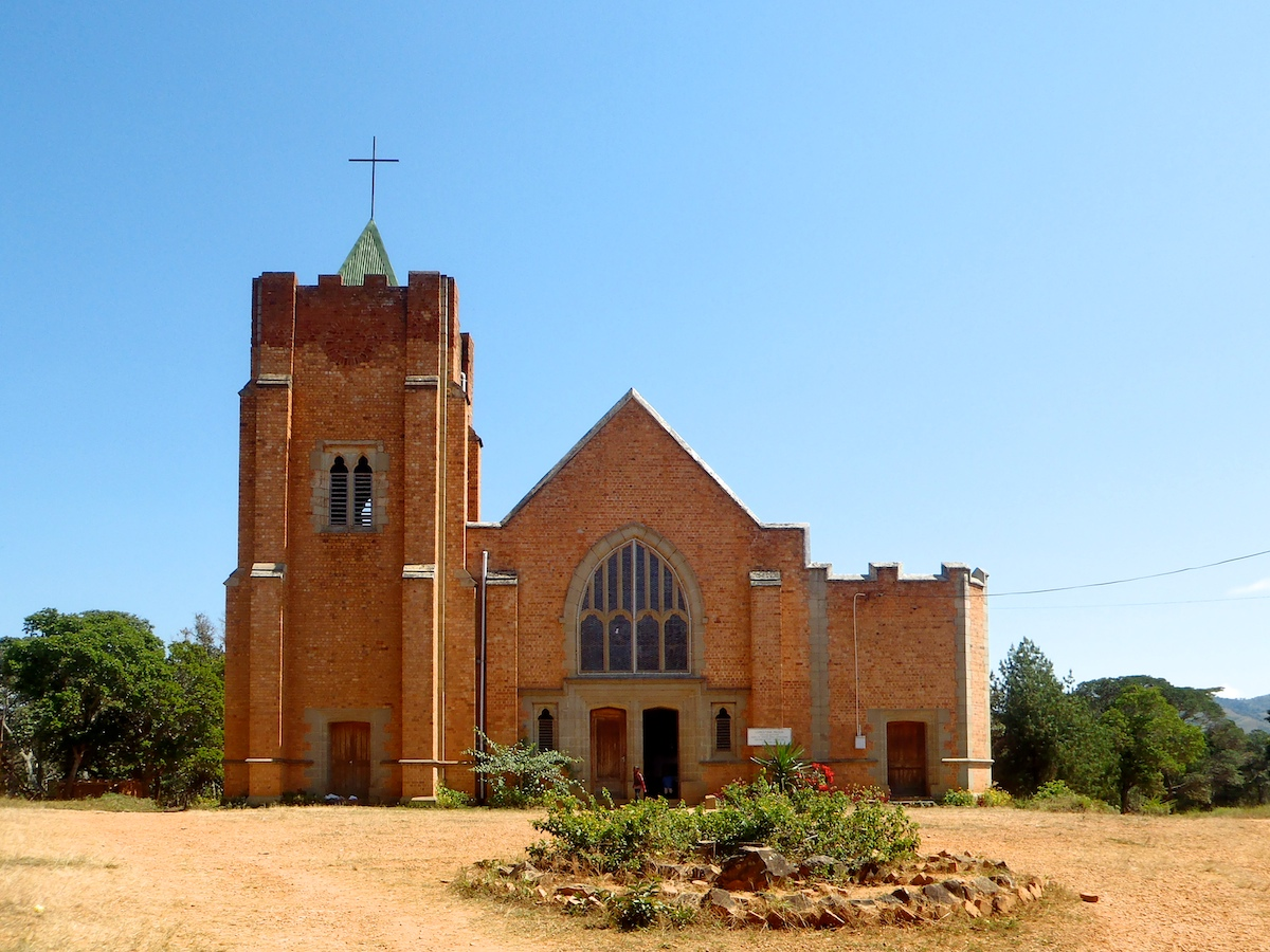 Livingstonia Mission Church, Overtoun Institution, Church of Central Africa Presbyterian.